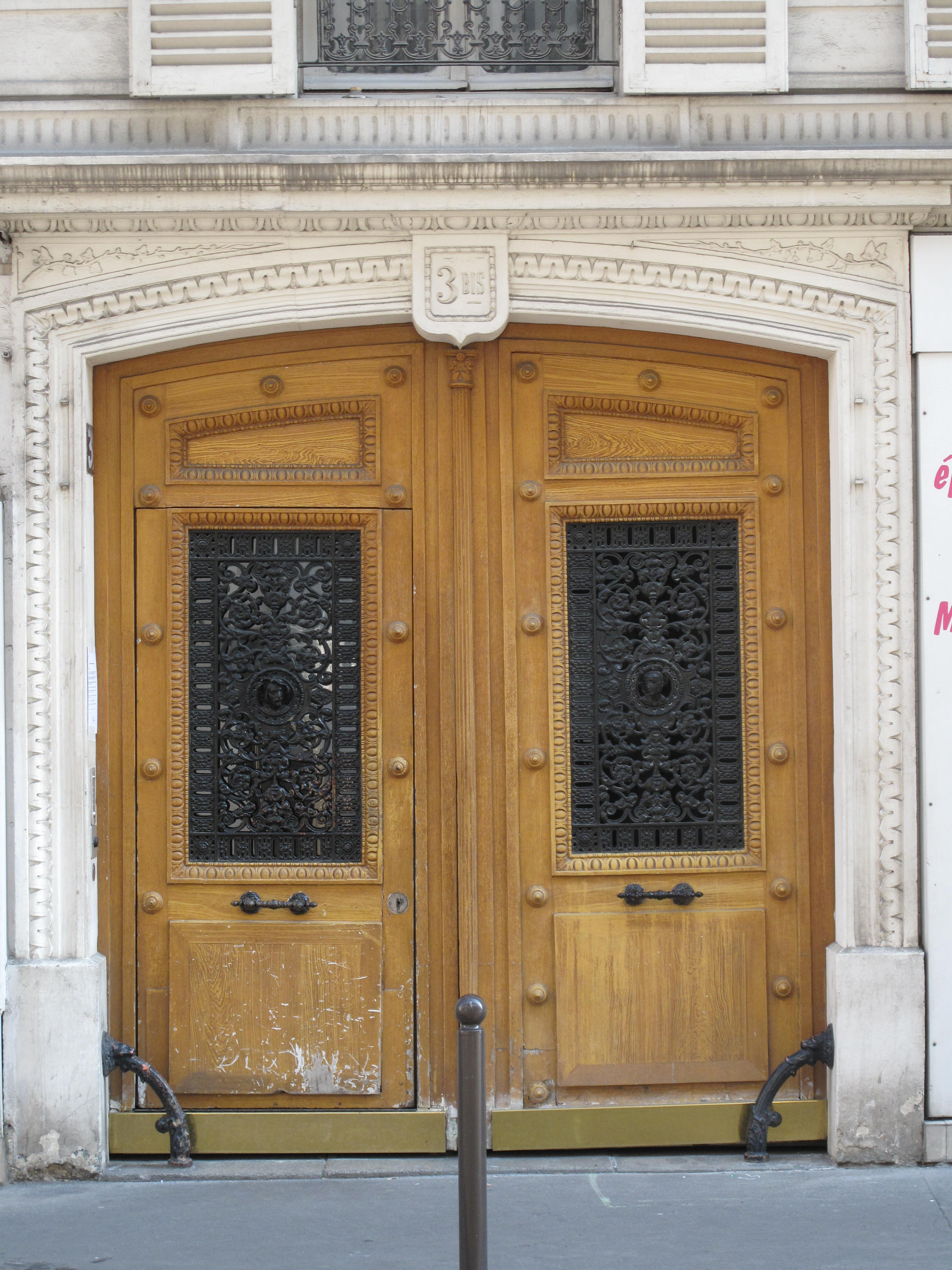 Ornated door : 3bis rue d'Athènes, Paris 9th arr.